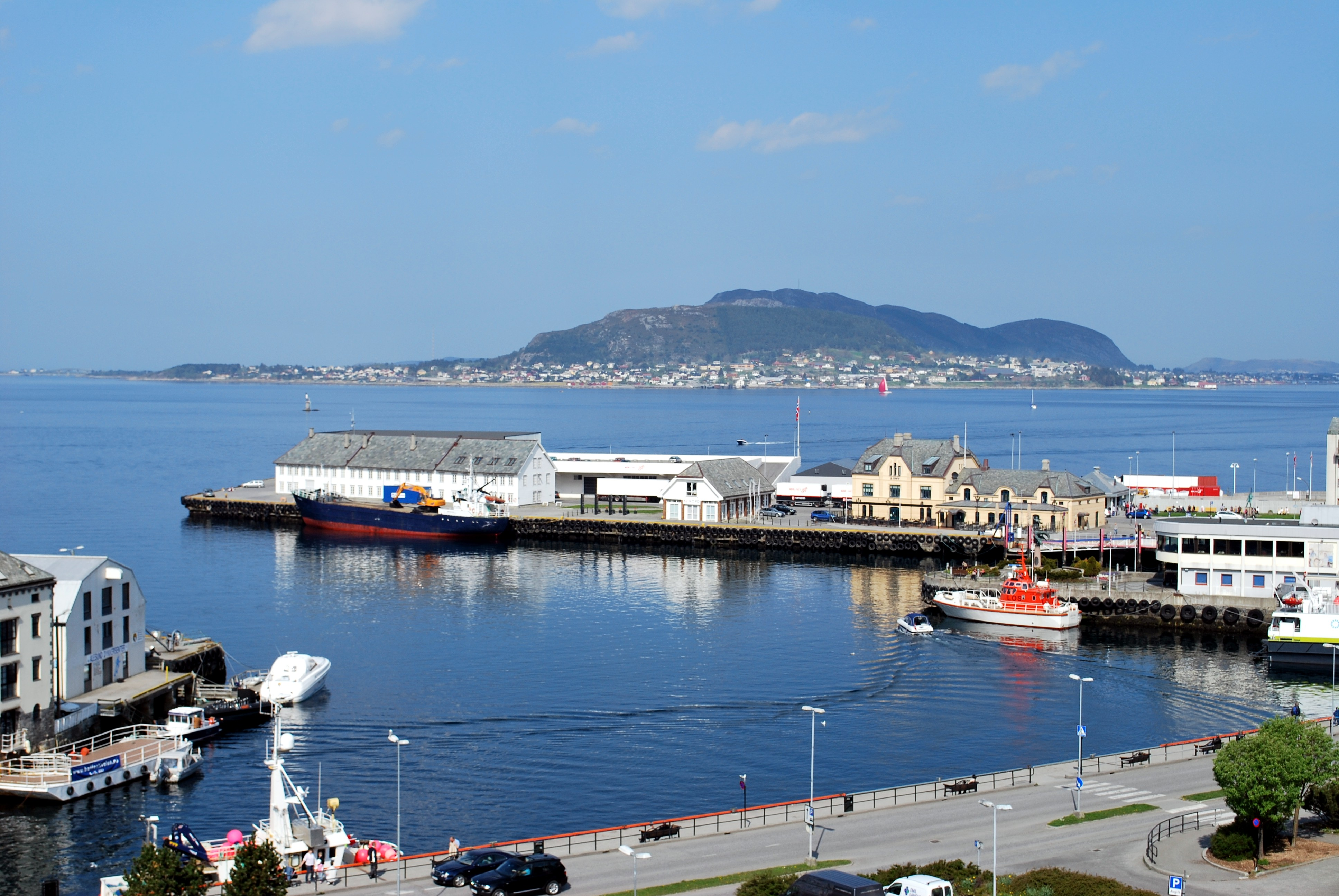 Skansekaia, Ålesund.